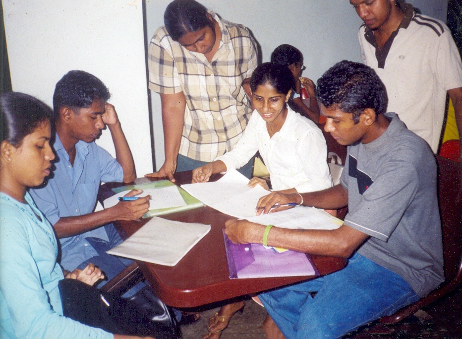 Team workEuskara: Taldean lanean